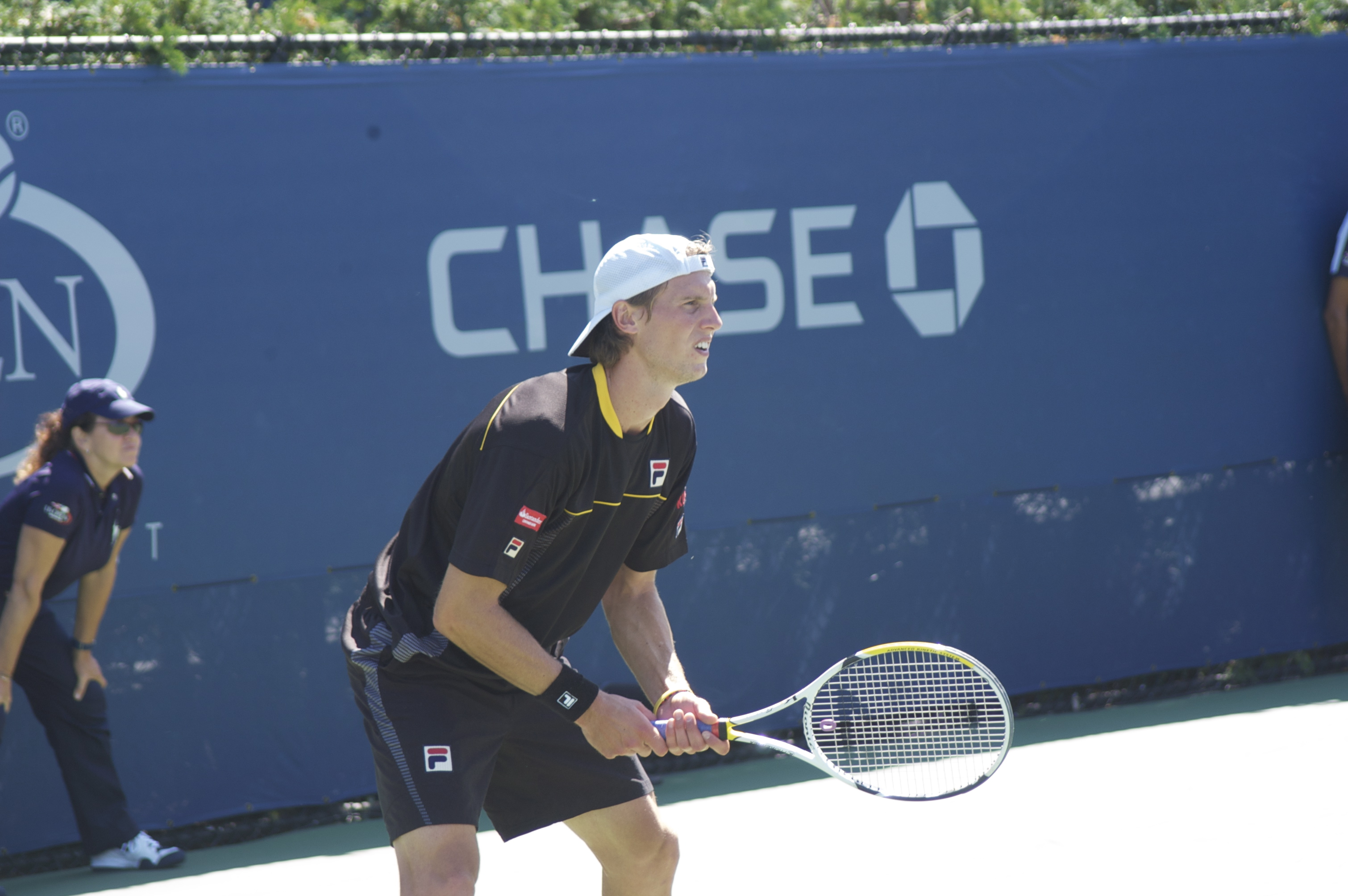 Andreas Seppi at the en:2008 us open tennis in Flushing Meadows, New York